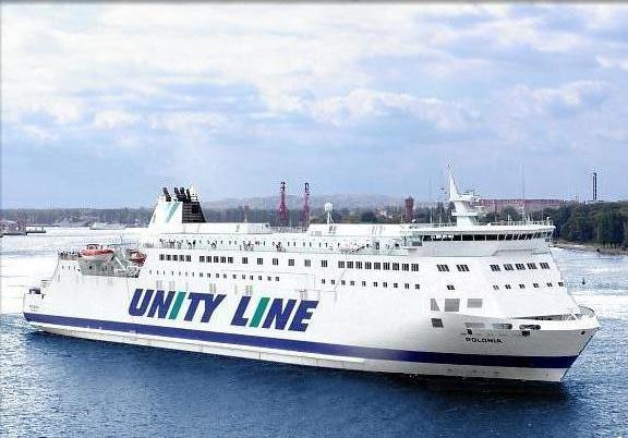 Name of ship: Polonia IMO Number: 9108350 MMSI Number: 309272000 Callsign: C6NC7 Length: 170 m Beam: 28 m